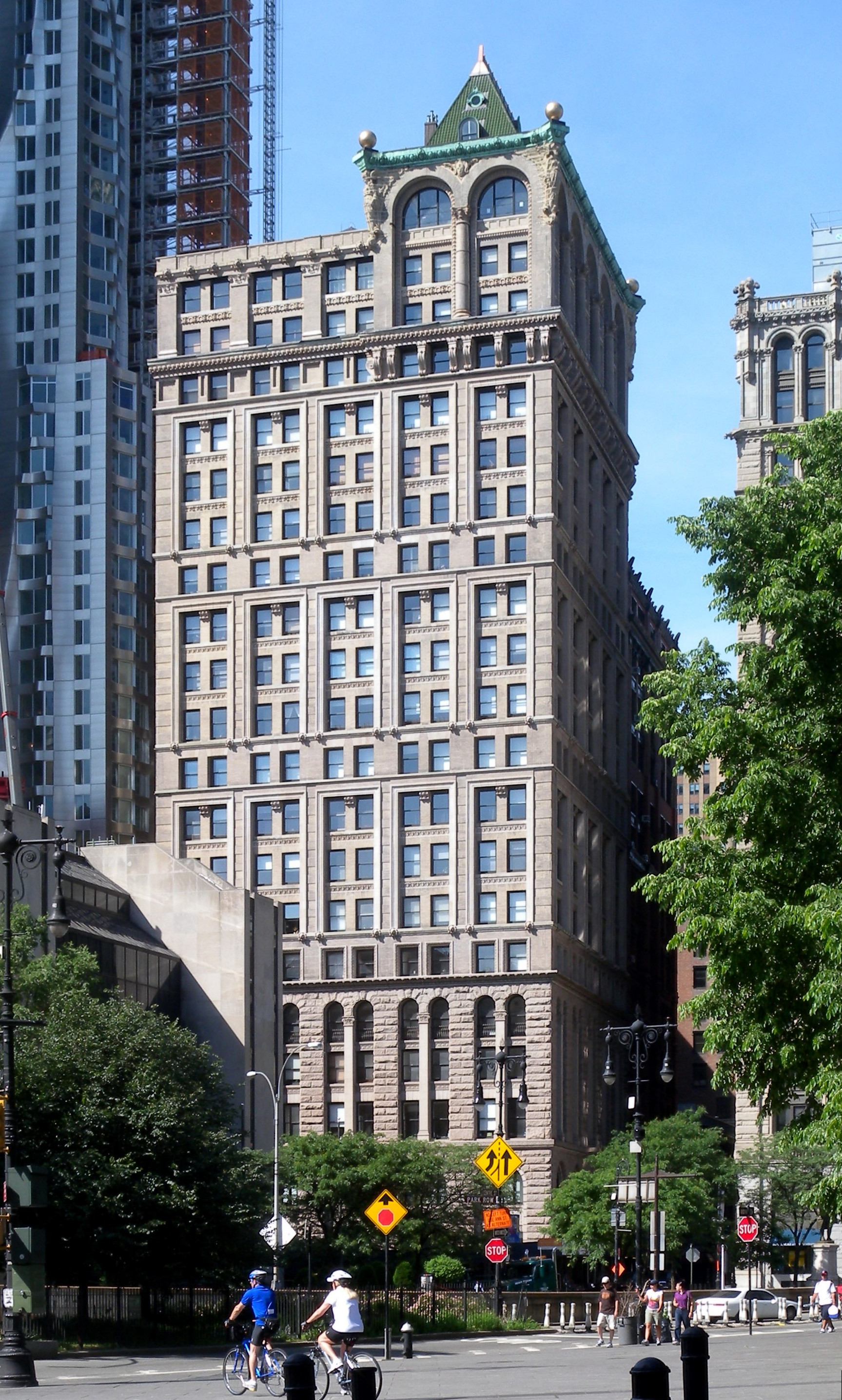 Looking south from east side of City Hall Park on a sunny morning.